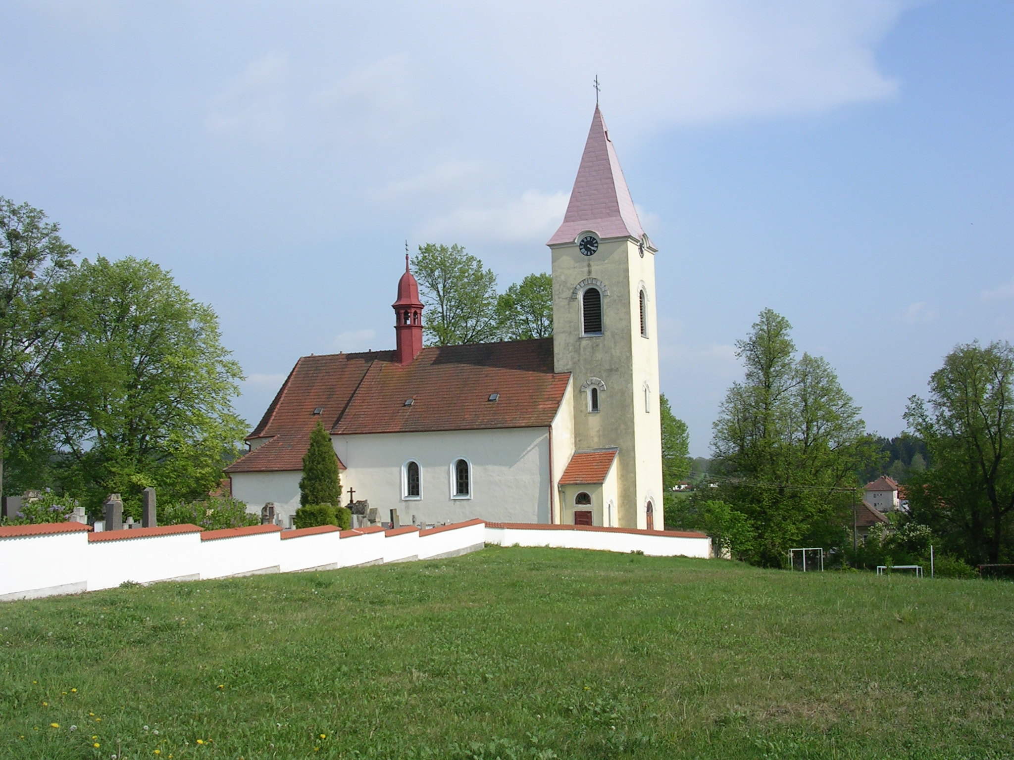 Chlum u Třeboně-Lutová, South Bohemian Region, the Czech Republic.